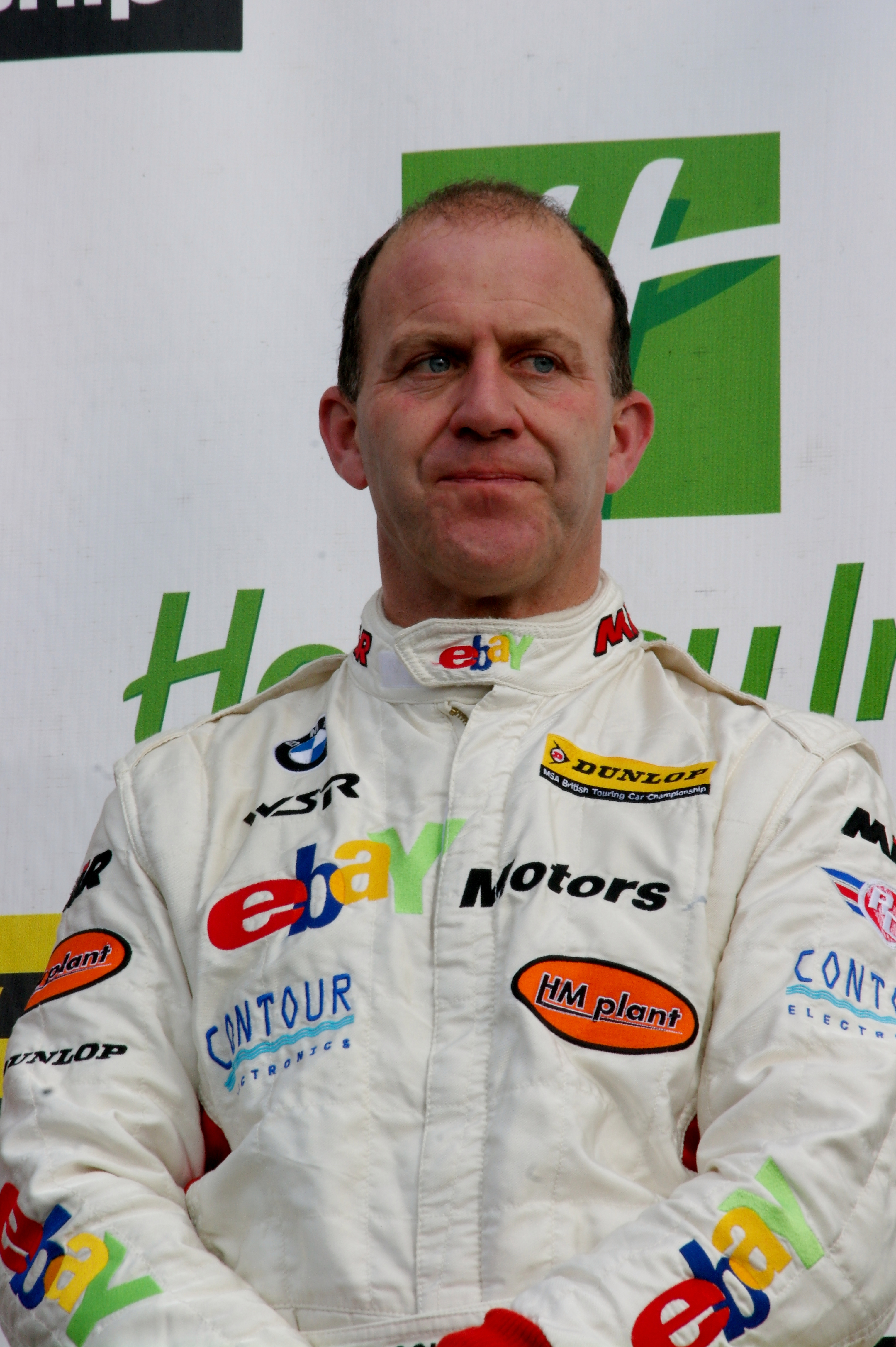 Rob Collard as a driver for eBay Motors at Silverstone in the 2012 British Touring Car Championship.